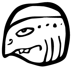 Maya:glyph:logogram:calendric:Tzolkin:Day15:Men:codex+W:v01. Img created by CJLL Wright.